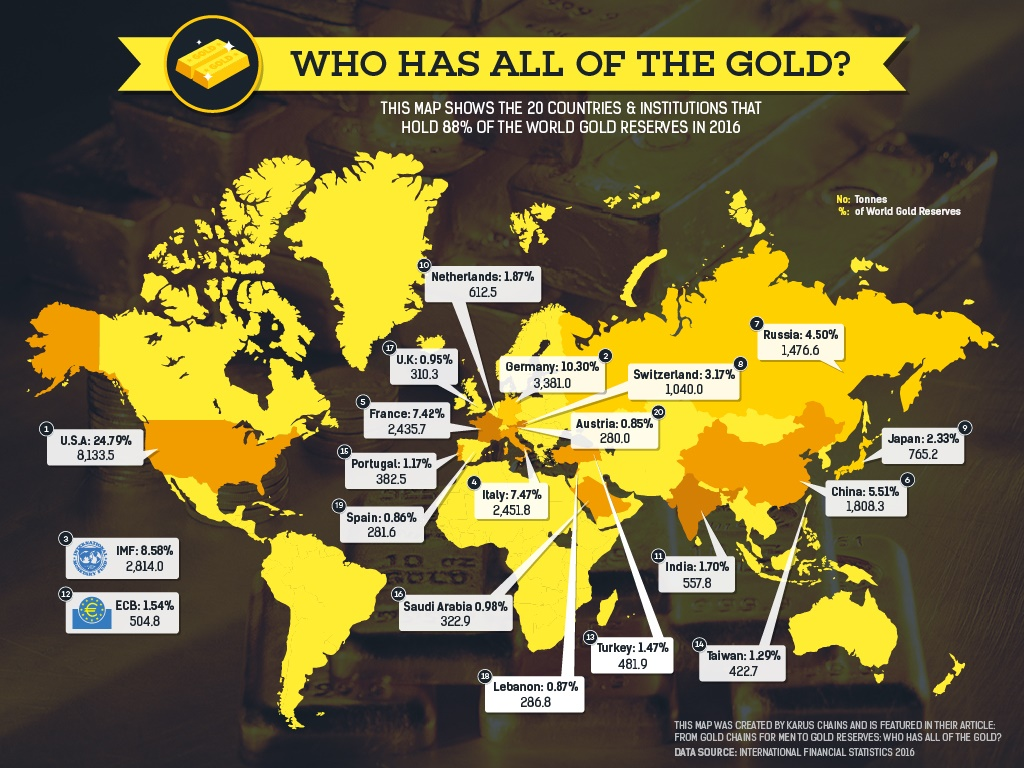 The data is based on the most recent figures released by the IMF’s International Financial Statistics and demonstrates that 88% of the world’s gold reserves are held by 20 countries. To read the article that accompanies this map, please go to